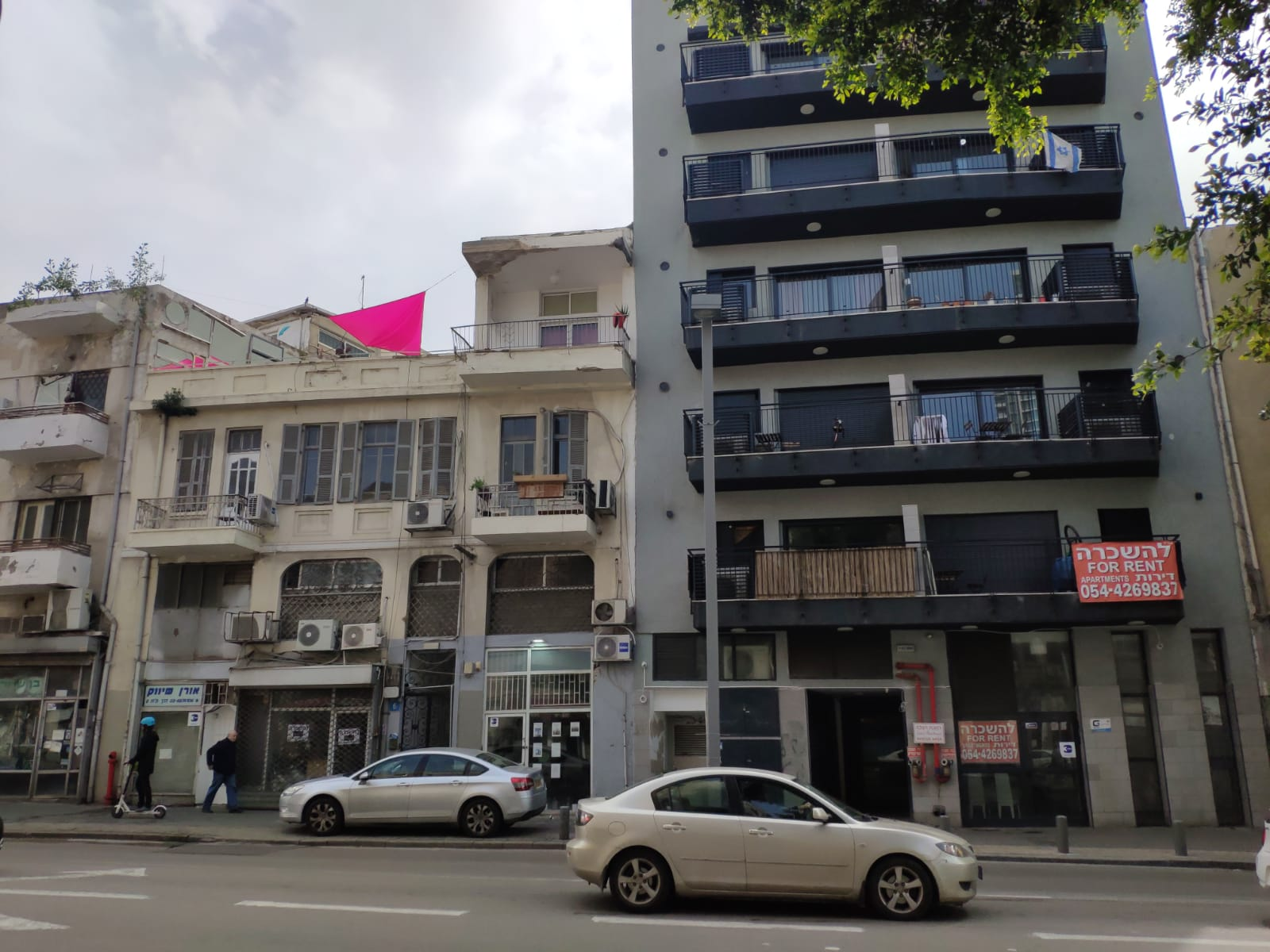 New and old Buildings side by side in Jafa road, Florentin, Tel Aviv